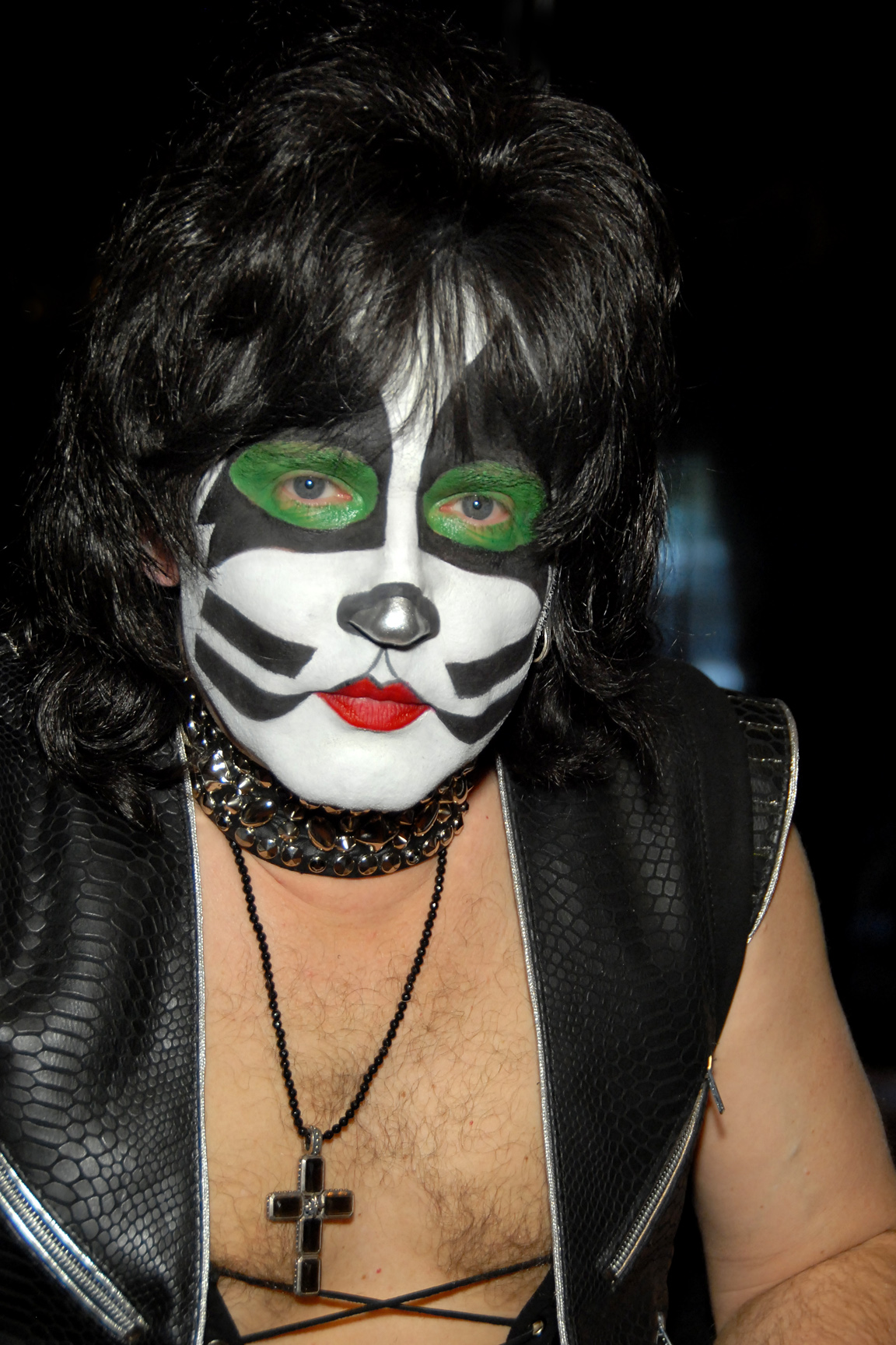 Eric Singer, Hollywood, CA on March 20, 2012 - Photo by Glenn Francis of